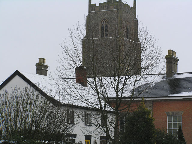 View across snowy rooftops in Stradbroke, Suffolk, to the west tower of All Saints' parish church